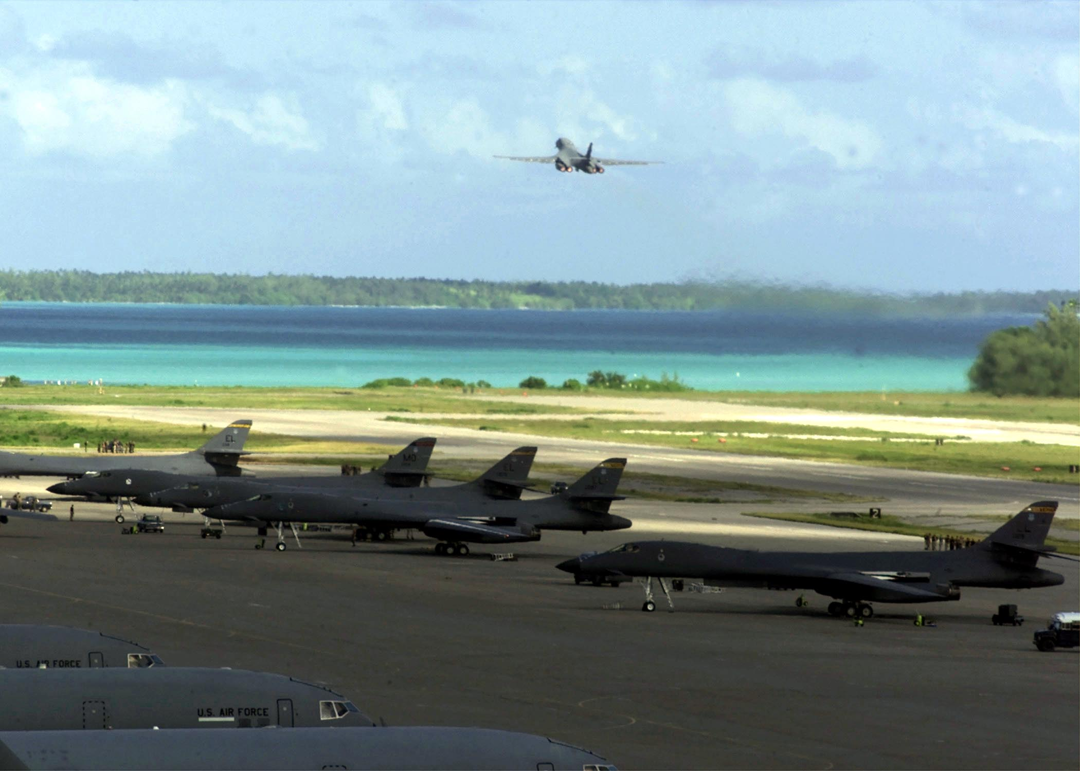 A U.S. Air Force B-1B Lancer bomber takes off on a strike mission against al Qaeda terrorist training camps and military installations of the Taliban regime in Afghanistan on Oct. 7, 2001, during Operation Enduring Freedom. DoD photo by Senior Airman Rebeca M. Luquin, U.S. Air Force. (Released) source: DoD URL: id: 011007-F-6833L-047 notes: Runway 13, Diego Garcia. The Bones in the foreground are from the 28th Bomb Wing, Ellsworth AFB, South Dakota, and the 366th Wing, Mountain Home AFB, Idaho.